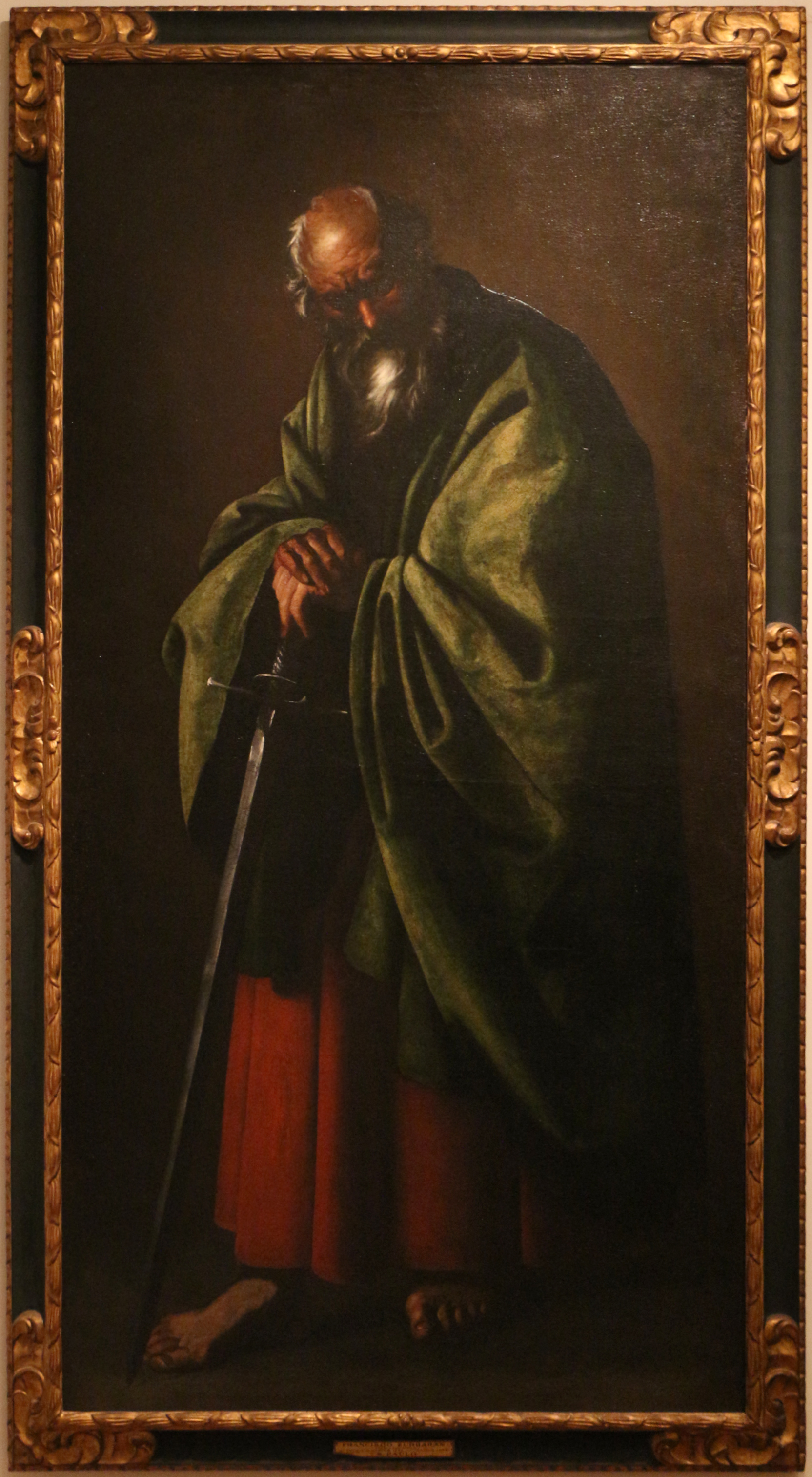 Spanish paintings in the Museu Nacional de Arte Antiga